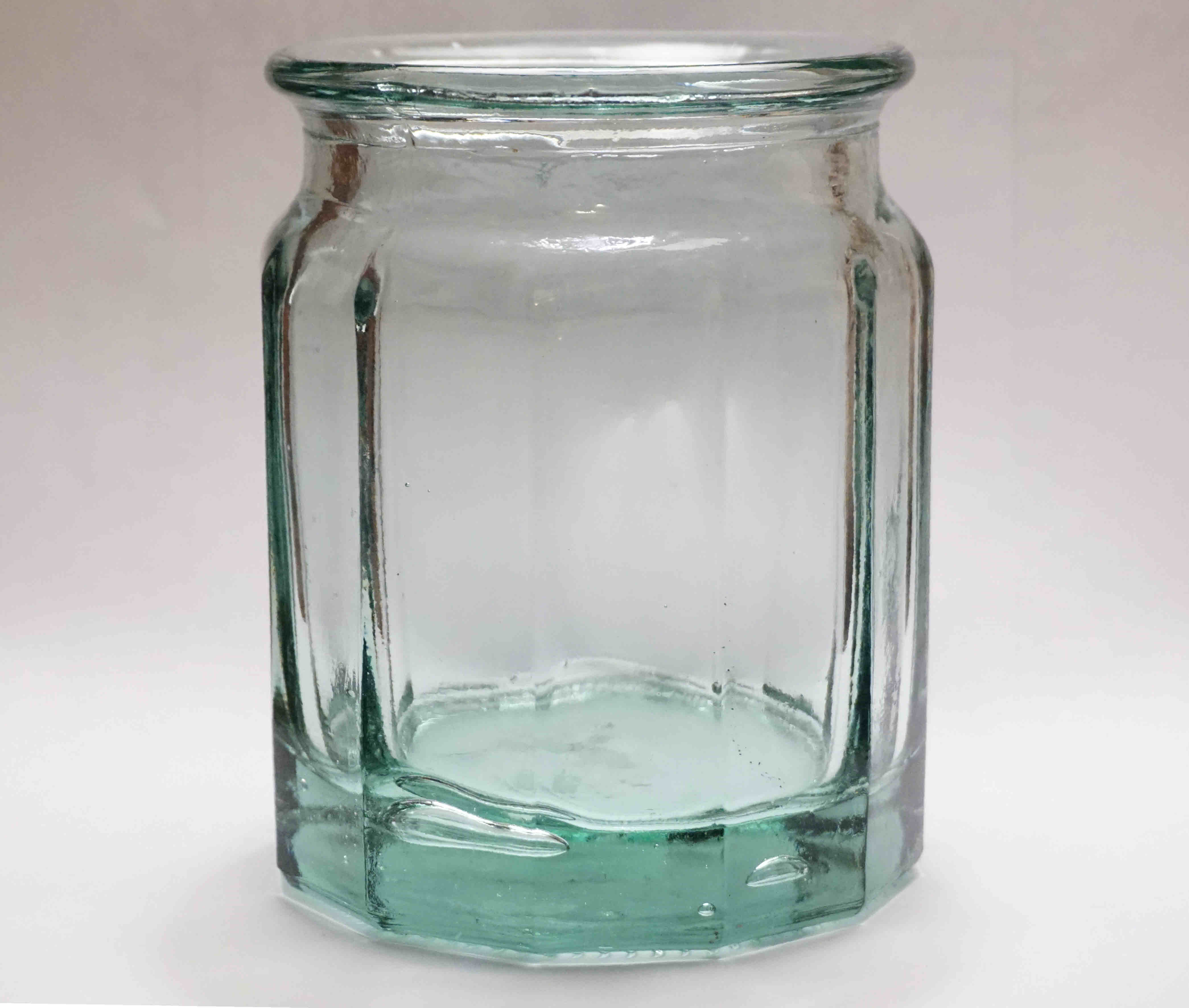 A jar made of soda-lime glass. While transparent in thin sections, the glass appears greenish-blue in thick sections. Defects in the blow-molding process resulted in air bubbles being trapped in the glass, which remain as it cooled through the glass transition from a supercooled liquid.